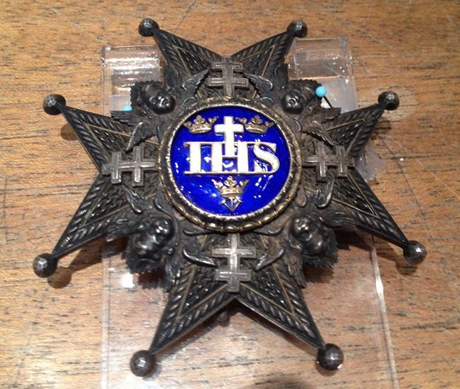 Order of the Seraphim, Sweden